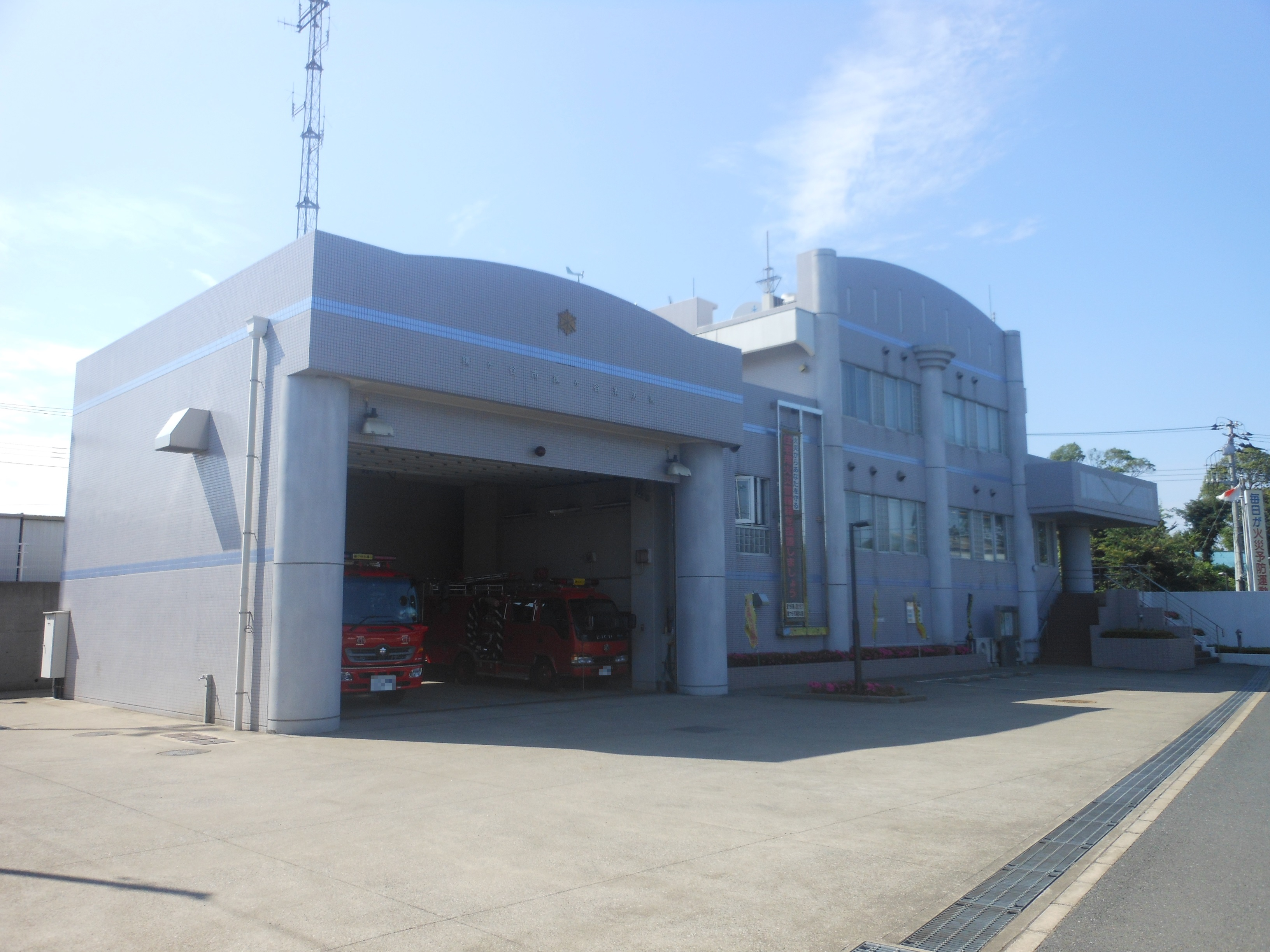 This is the Kamagaya Fire Department Kamagaya Fire Station in Kamagaya, Chiba, Japan.